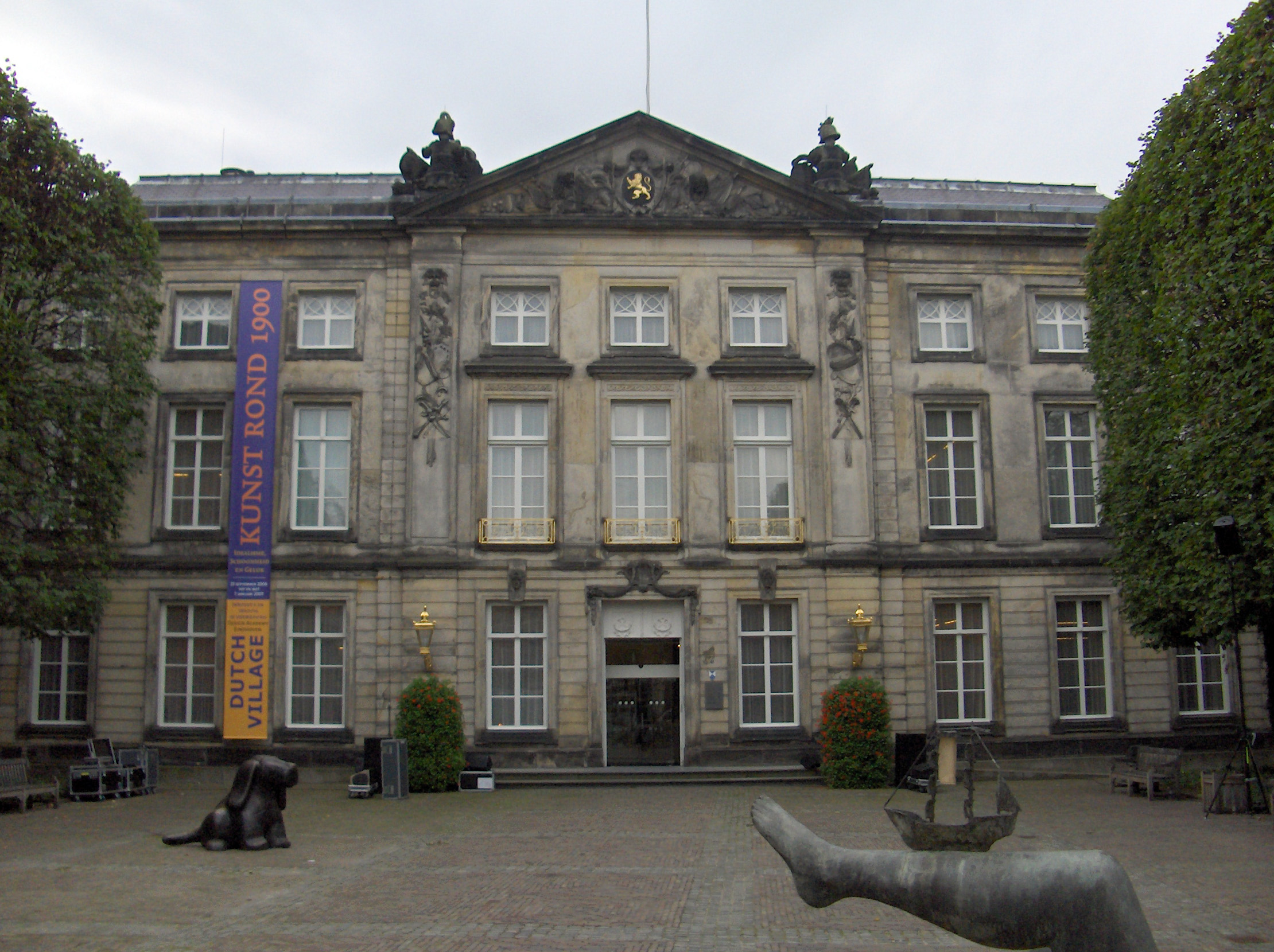 Front view of the Museum of Northern Brabant in 's-Hertogenbosch, the Netherlands